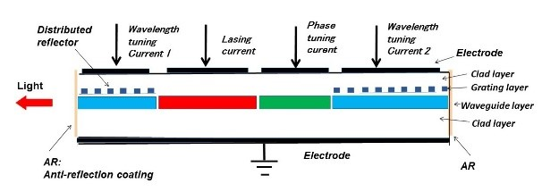 Fig.7. Schematic structure of Wavelength Tunable Laser ~ Electro, in 1980 ~Electro-tunable Dynamic Single Mode Laser ~.